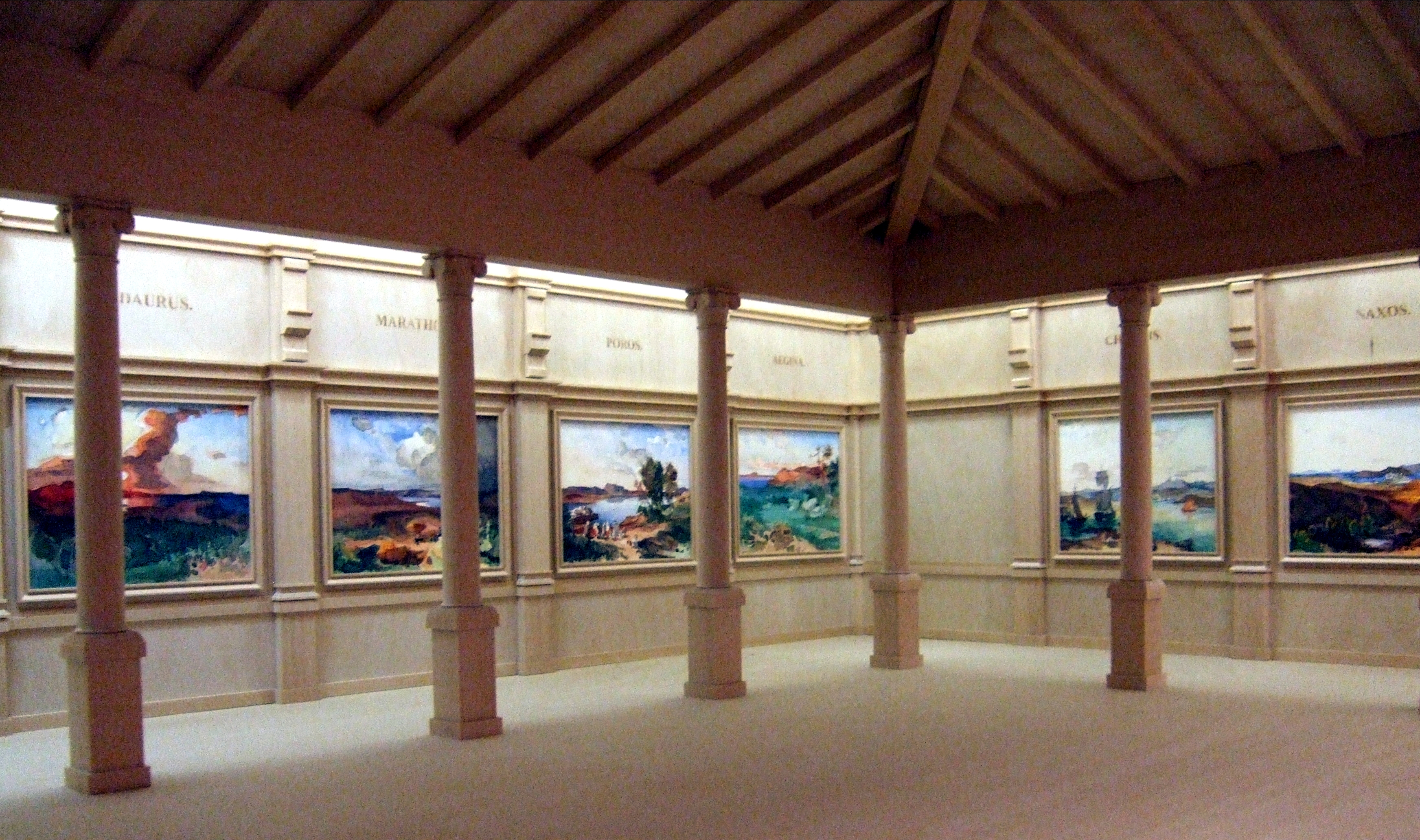 Rottmann Hall at the Neue Pinakothek (Munich): Model scaled 1 : 20 by Peter Hönigschmid, Alexander Huß, Maximilian Schmidt (2006)